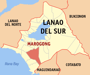 Map of the Lanao del Sur showing the location of Marogong